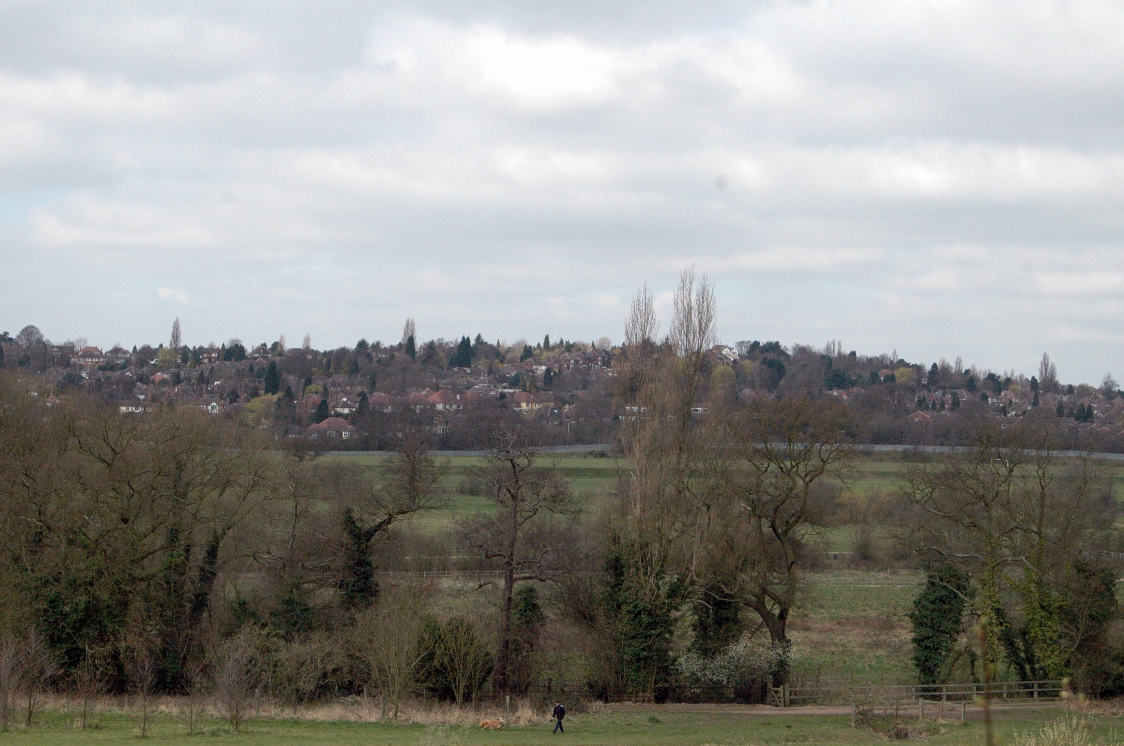 This is the area of Maney in the distance as viewed from the other side of New Hall Valley in Sutton Coldfield, Birmingham, England